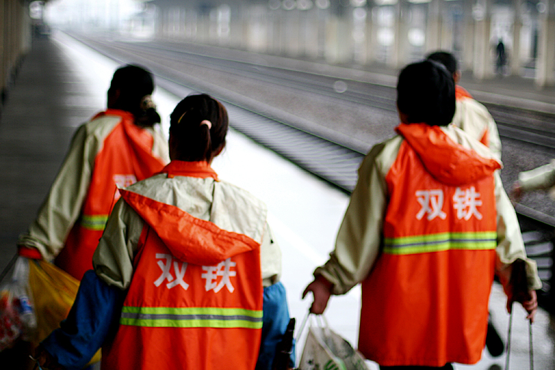 Clean-up Crew @ Suzhou Station in Suzhou